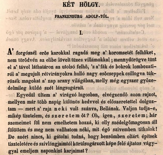 Work of Frankenburg Adolf